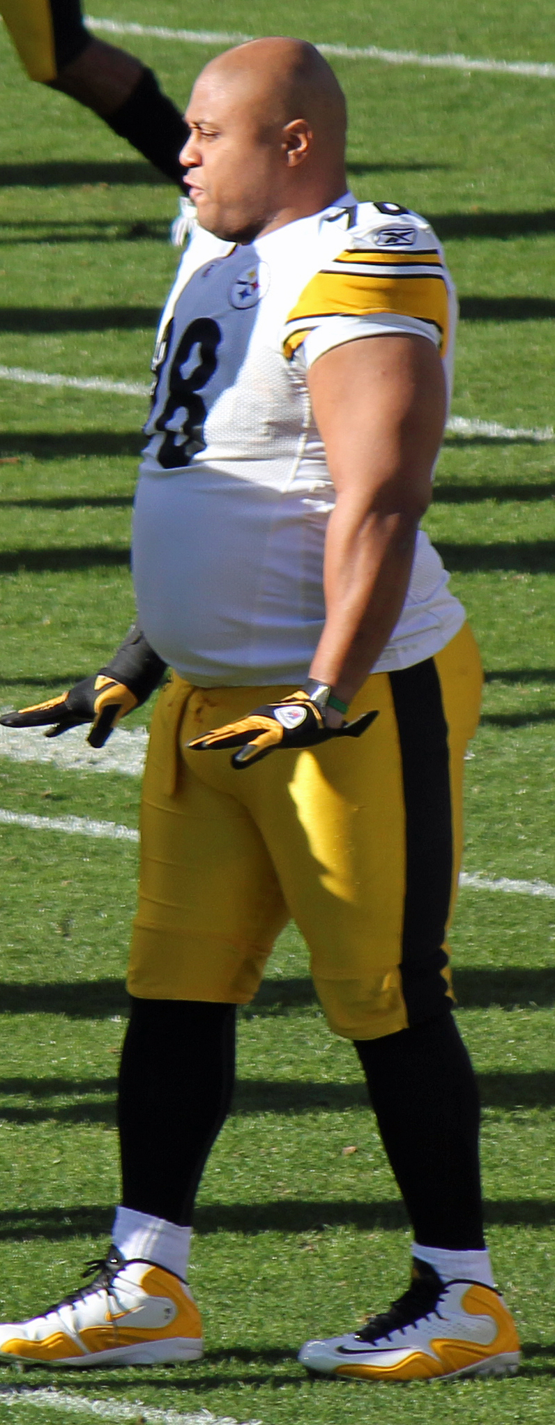 Casey Hampton, a player on the National Football League.